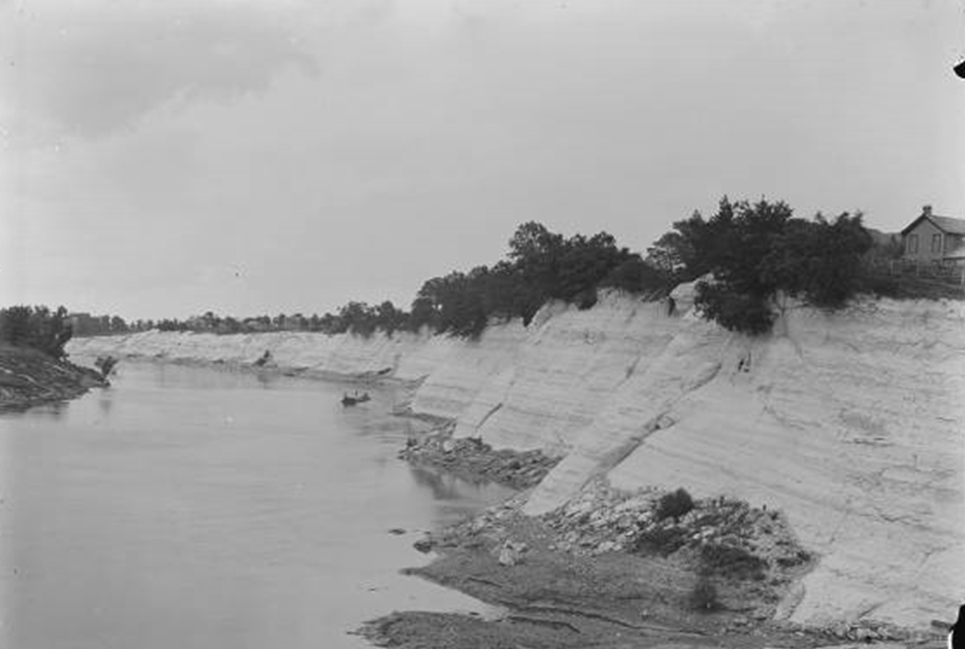 View of Demopolis Bluff.